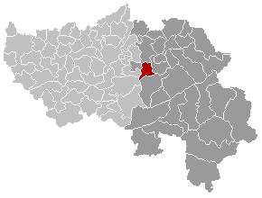 Map, municipality belgium Pepinster